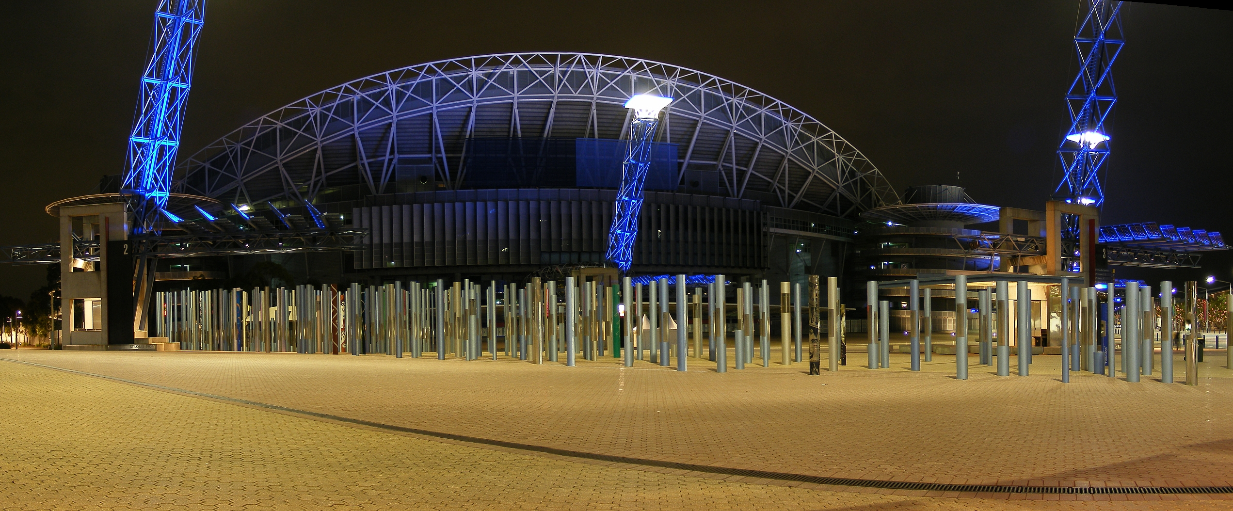 Olympic Park, Sydney Australia at night